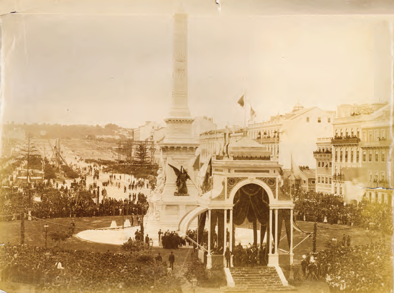 Unveiling of the Monument to the Restorers of 1640, in Lisbon, Portugal -- 28 April 1886.